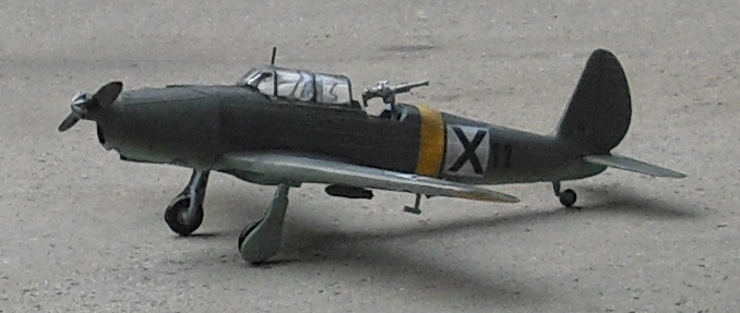 Model of a German Arado Ar 96 in the Bulgarian version. This is derived from Ar 96 V9 with an open rear cockpit with a Mg15 and racks for 6 light bombs.